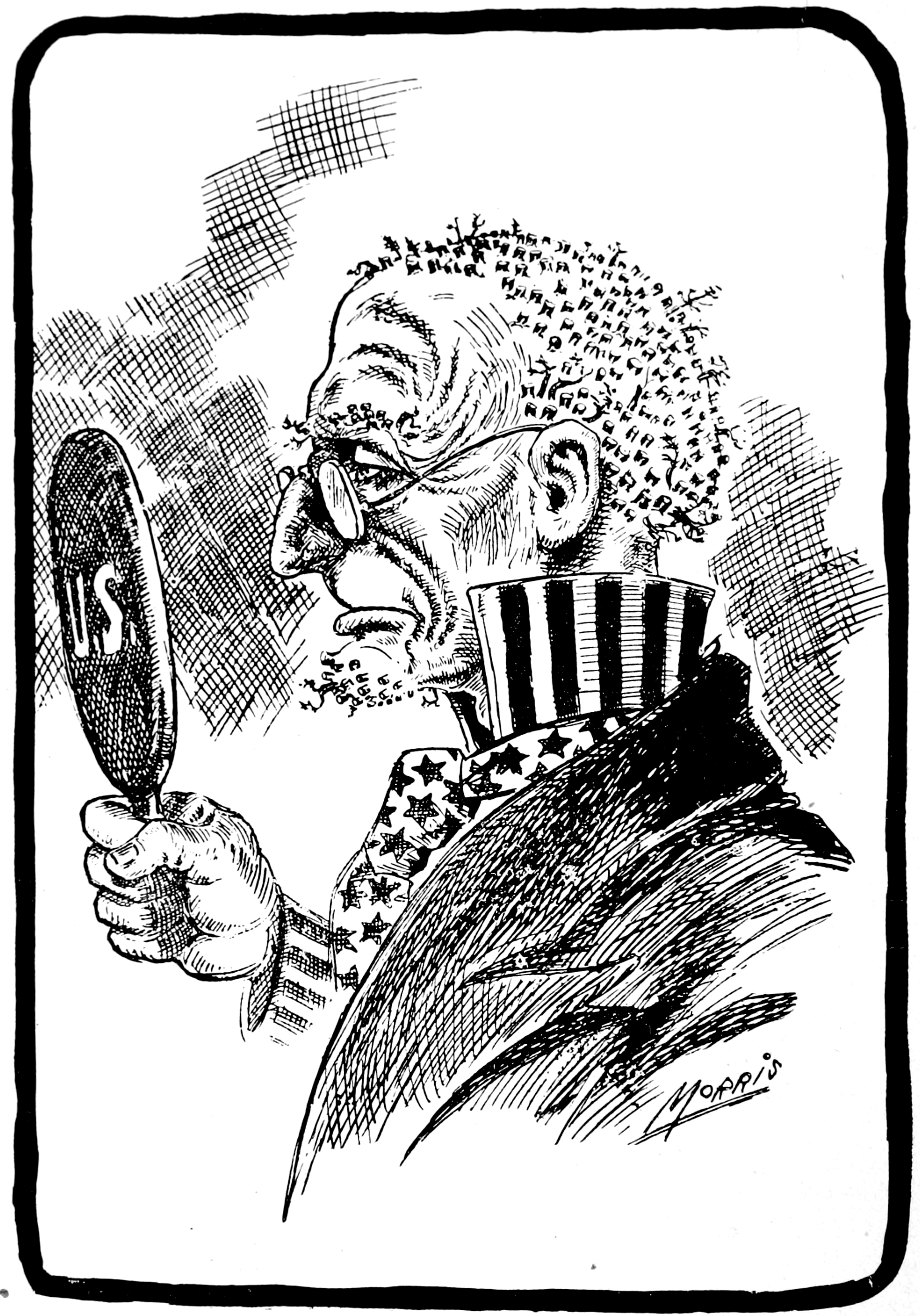 Image from Stephen Puter's 1908 book Looters of the Public Domain